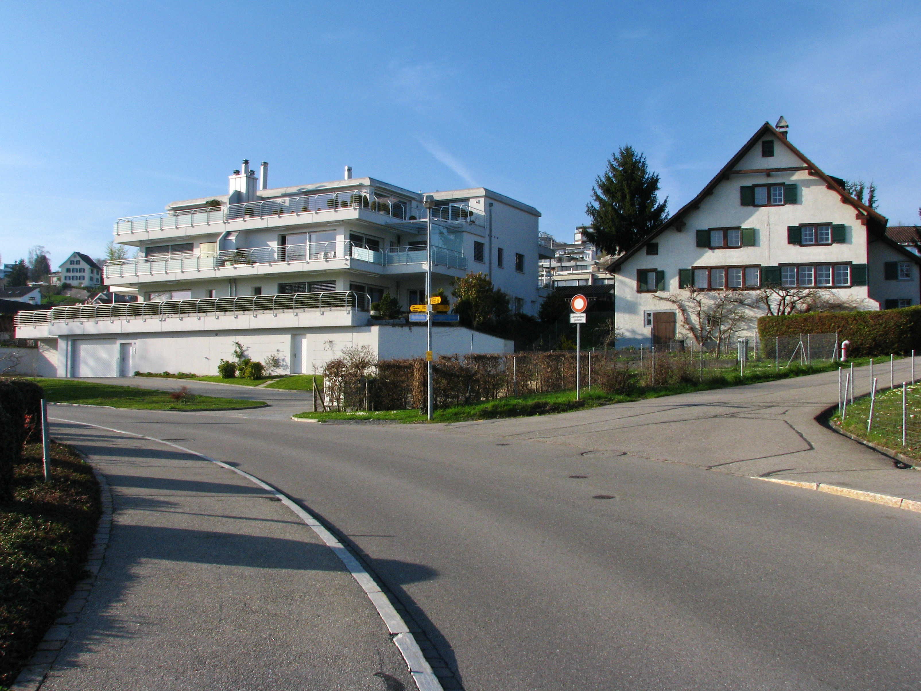 Kempraten (Rapperswil) : Kempraten, new and old buildings.